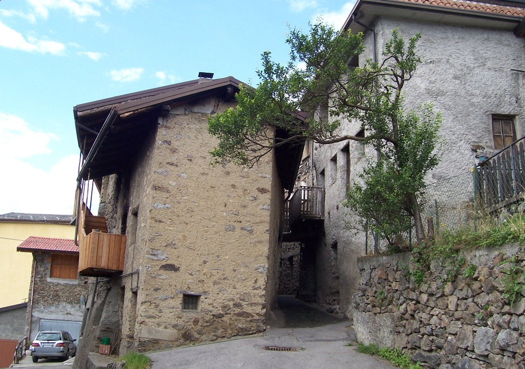 House, Loritto, Malonno, Val Camonica